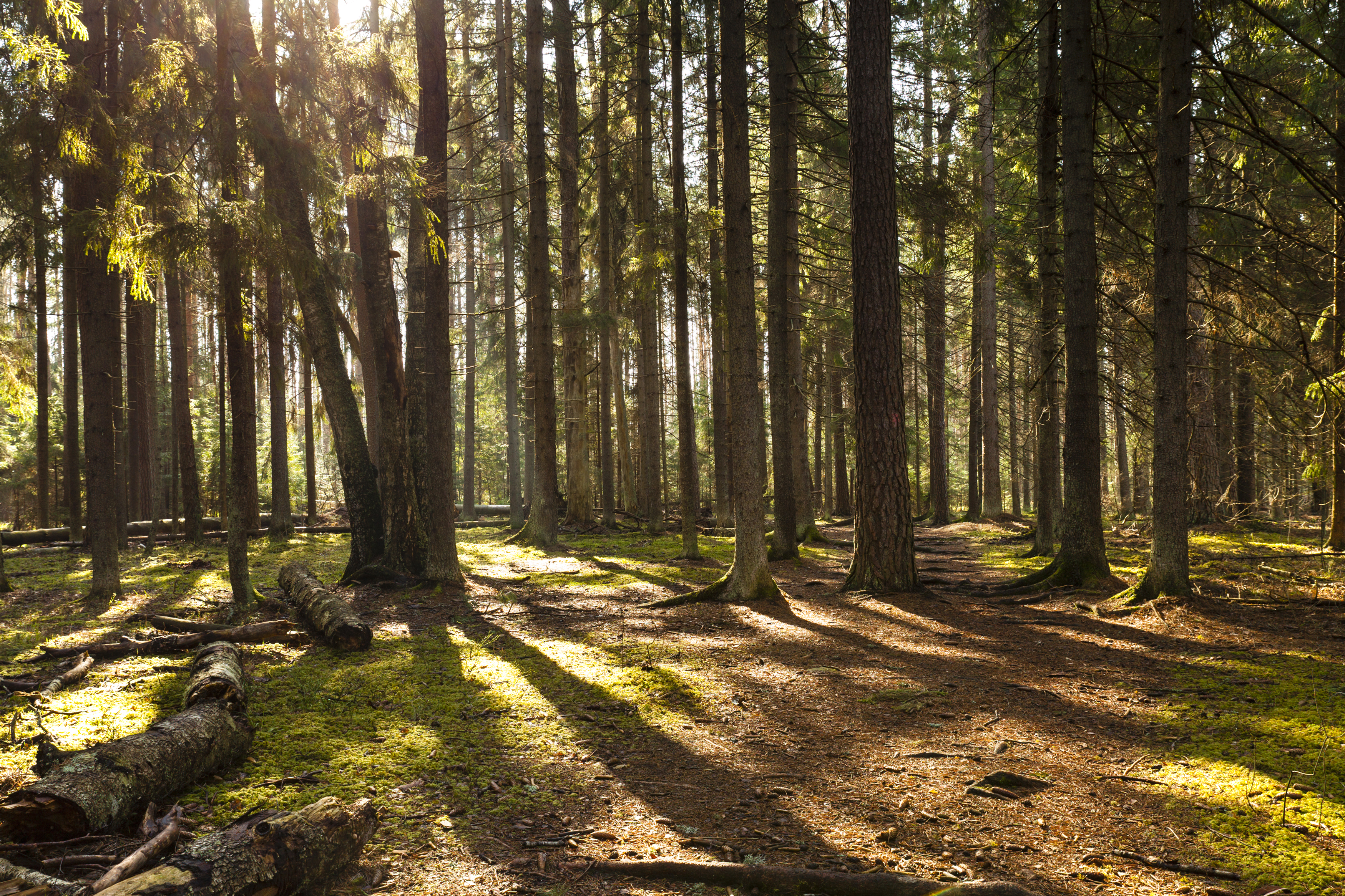 Old growth forest in Valgesoo Landscape Reserve, Põlva County, Estonia